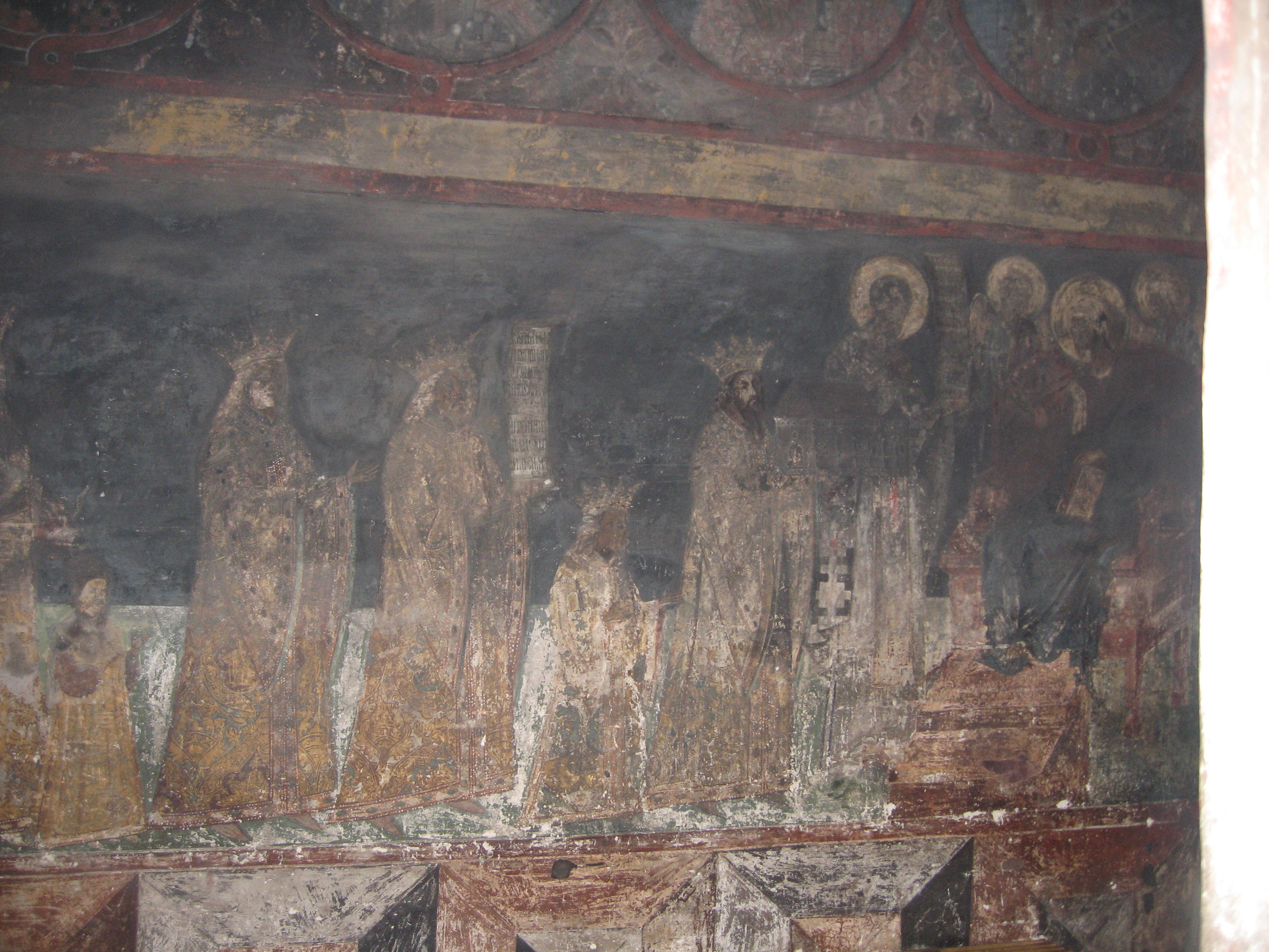 Bogdana